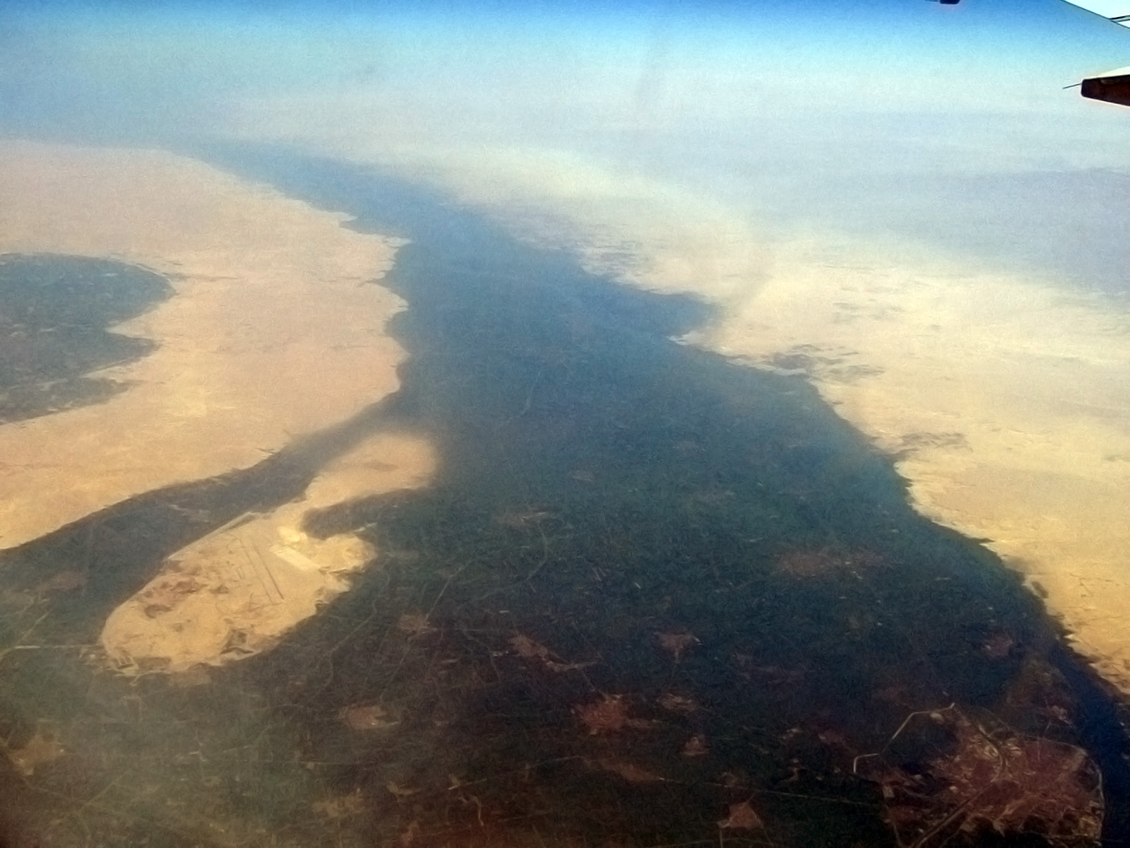 Vegetation along the Nile. You can see the river next to the big city (called: Beni Suef) on the right side at the bottom of the picture.